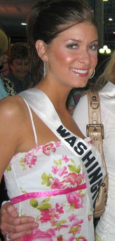 Tiffany Doorn (Miss Washington USA 2006), in a picture taken during a party prior to the Miss USA 2006 pageant.